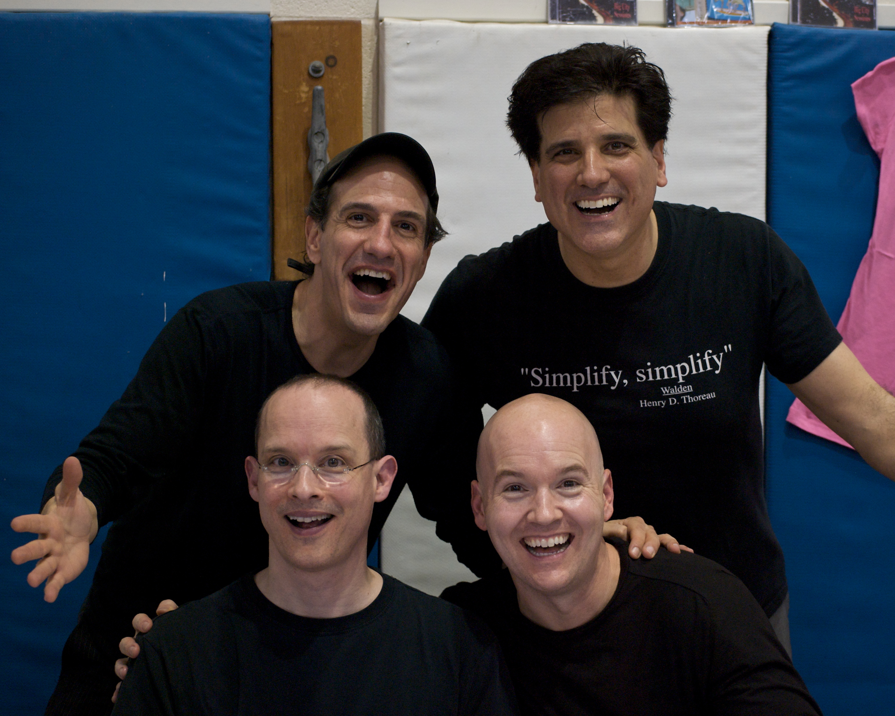 The Blanks at SUNY Geneseo. Clockwise from top left: Sam Lloyd, George Miserlis, Philip McNiven, and Paul F. Perry.